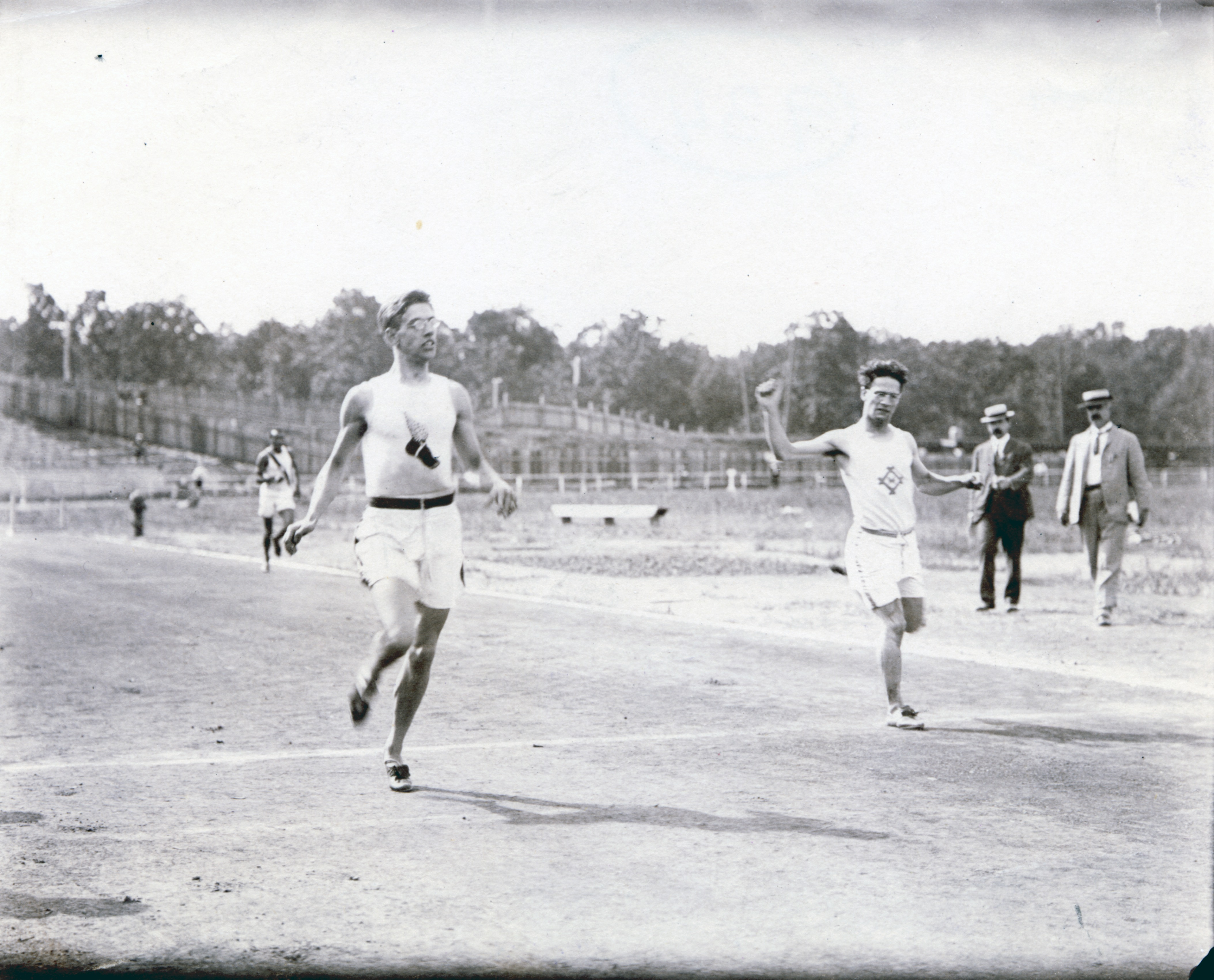 H.L Hillman, New York Athletic Club, crossing the finish line of the 400 meter hurdles.Title: H.L Hillman of the New York Athletic Club winning the 400 meter hurdles at the 1904 Olympics.